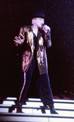 Wembley Stadium Londen Engeland juli '87